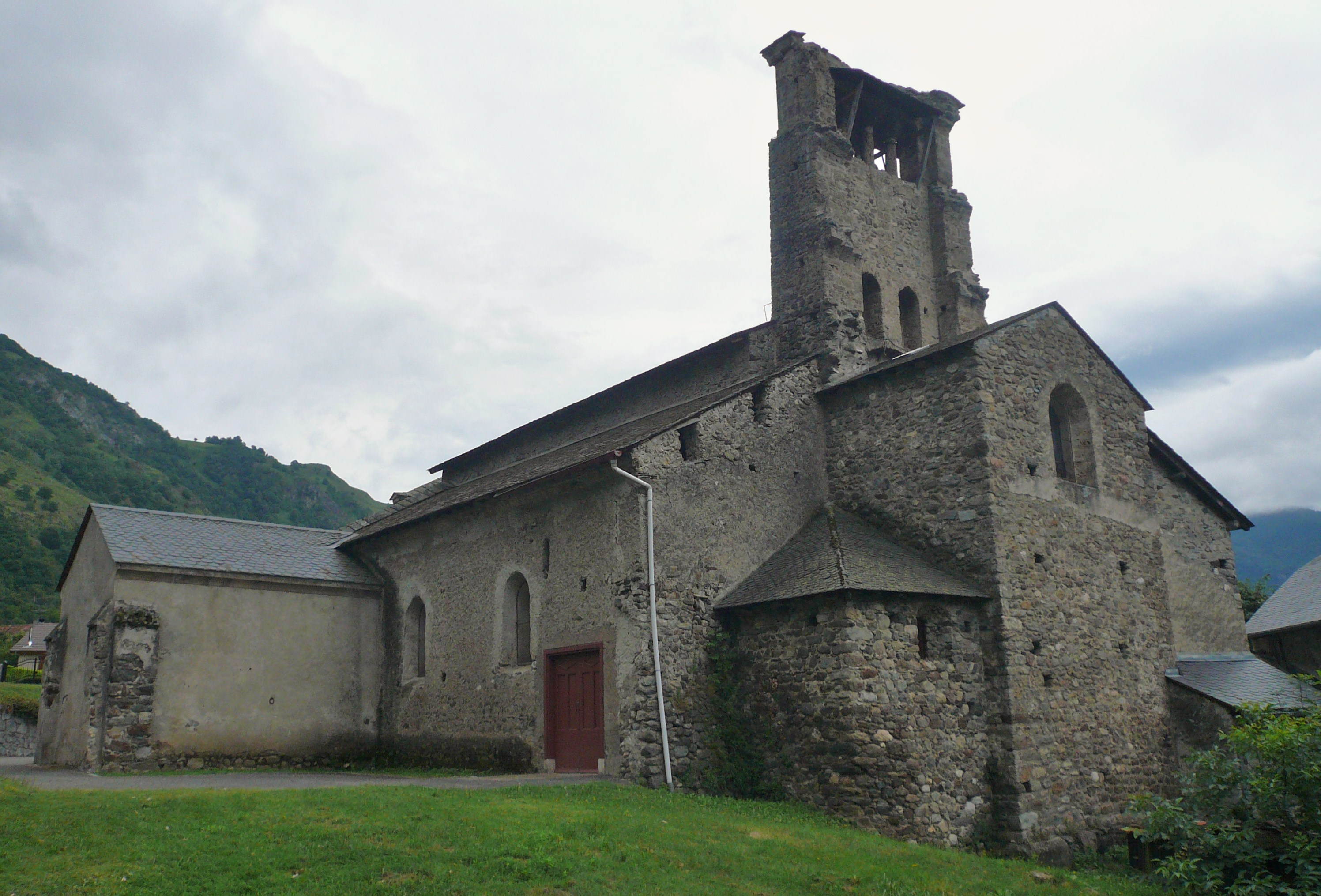 The St. Blaise church in Verdun (Ariège, Midi-Pyrénées, France) seen from north-west.